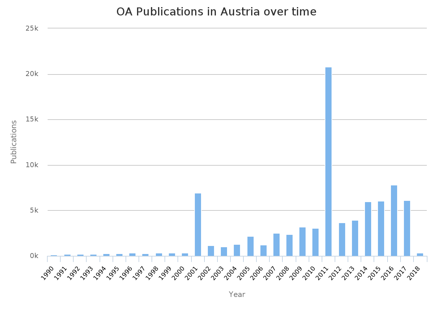 Bar graph describing open access to scholarly communication in Austria